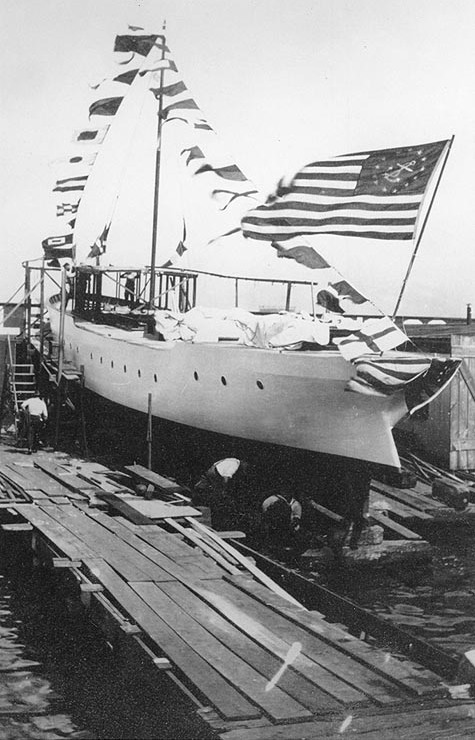 The private motor yacht Tuna ready for launching at the Nelson Yacht Building Company shipyard in Baltimore, Maryland. She later served as the United States Navy patrol vessel USS Tuna (SP-664).